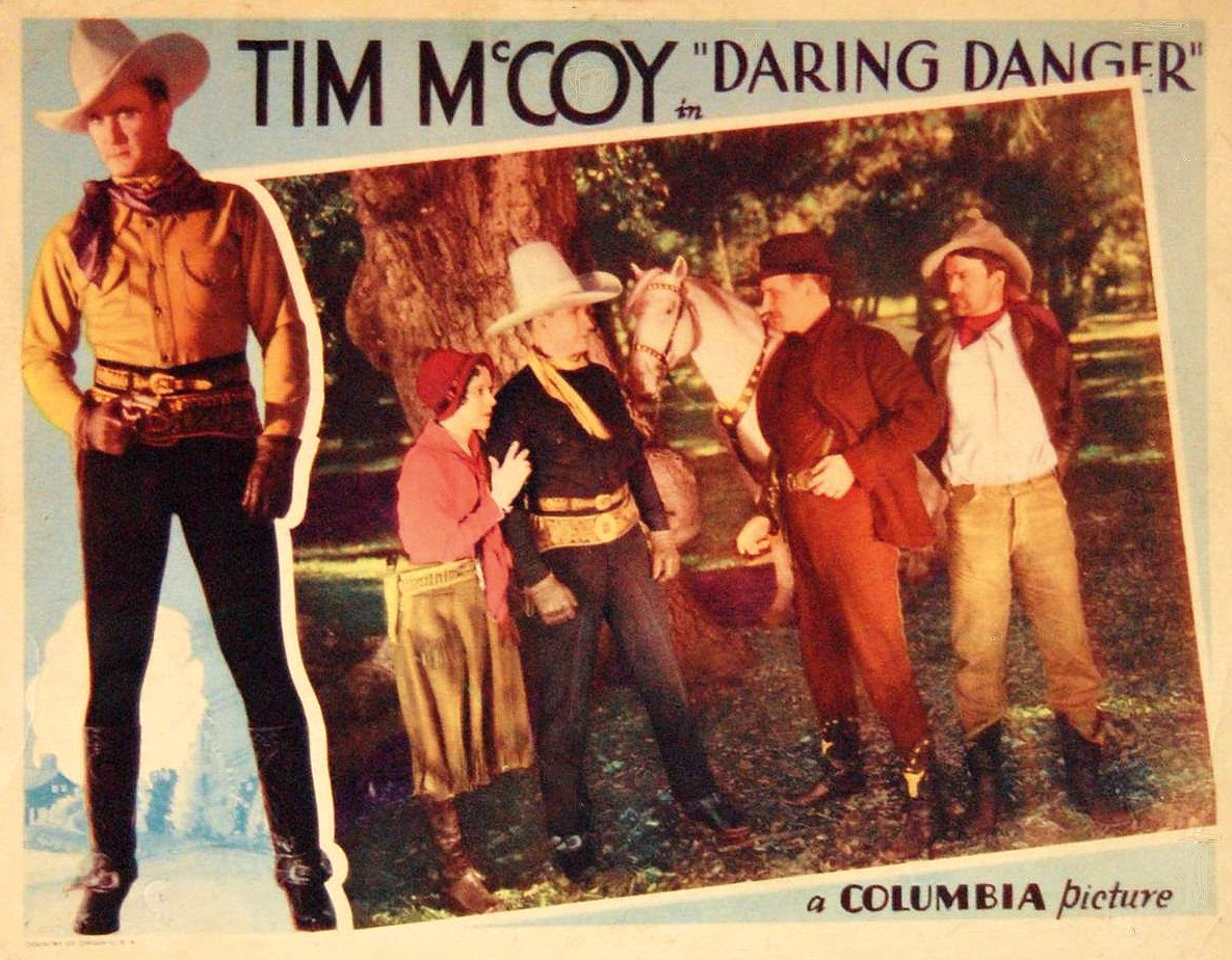 Lobby card from the American western film Daring Danger (1932).